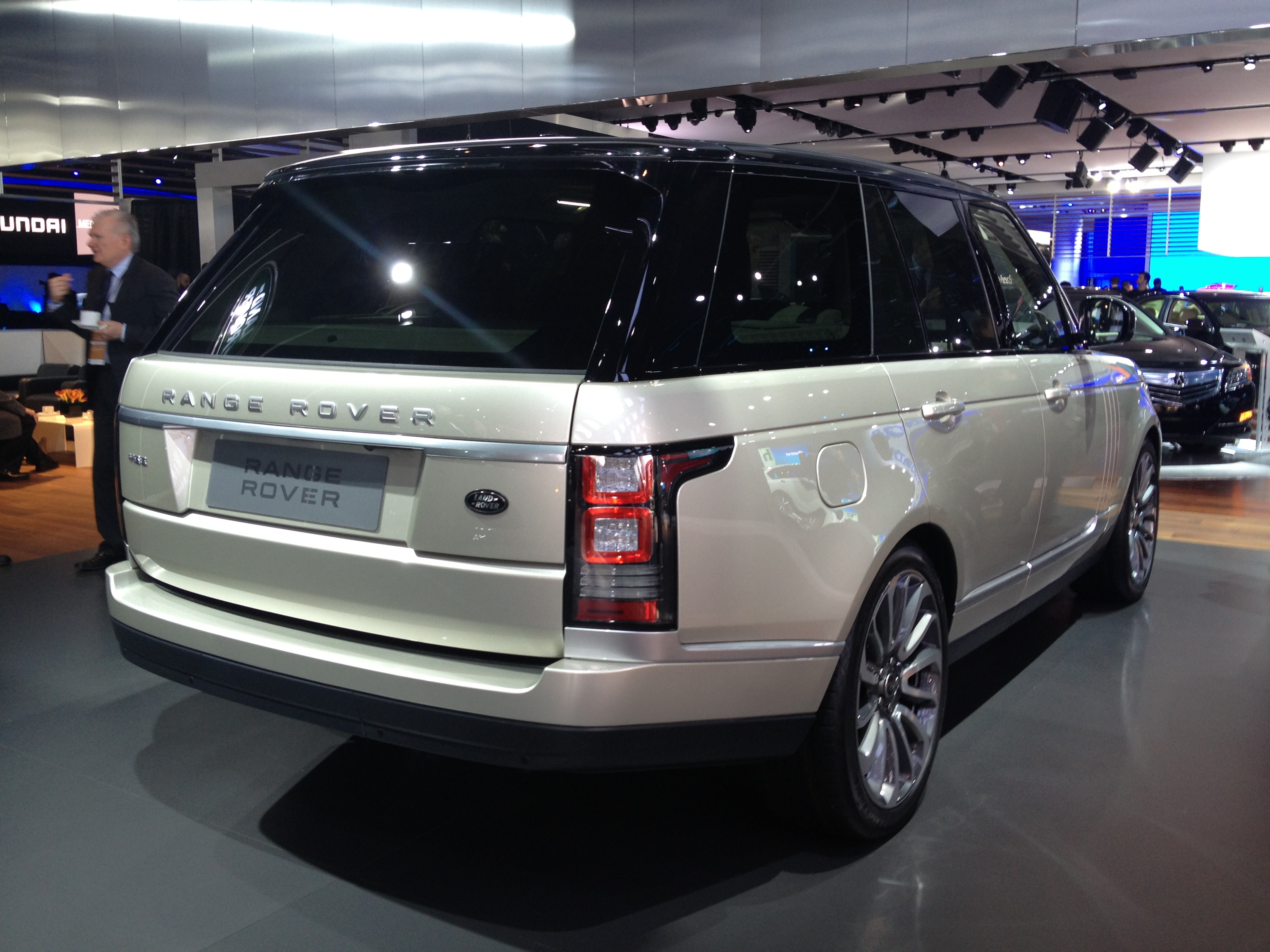 2013 North American International Auto Show Detroit, Michigan